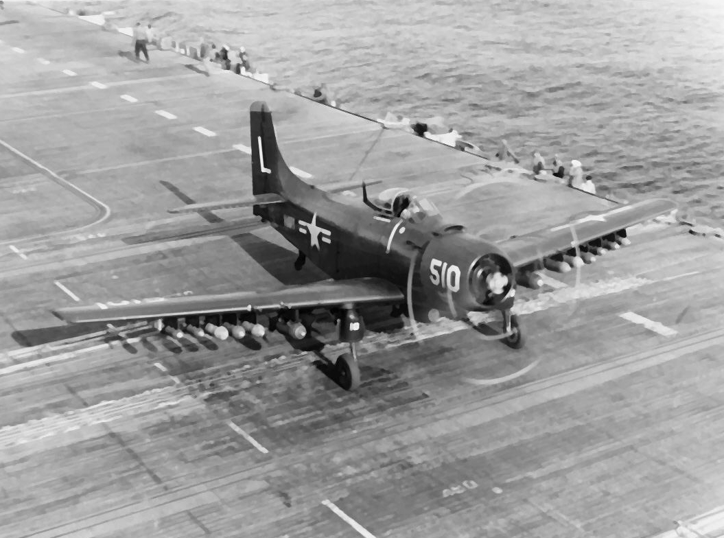 A fully armed U.S. Navy Douglas AD-4 Skyraider of Attack Squadron VA-75 "Sunday Punchers" takes off from the aircraft carrier USS Bon Homme Richard (CV-31). VA-75 was assigned to Carrier Air Group 7 (CVG-7) aboard the Bon Homme Richard for a deployment to Korea from 20 May 1952 to 8 January 1953.